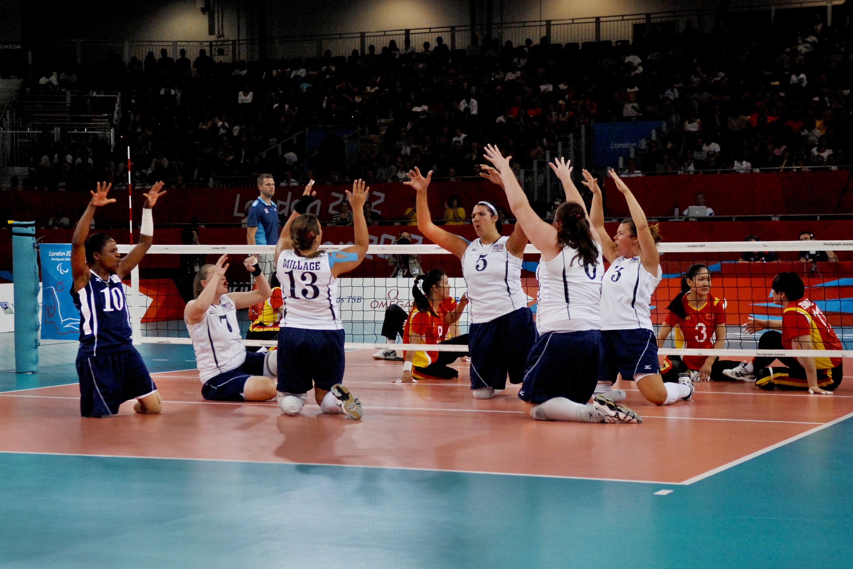 Kari Miller, far left, a former Army sergeant, and other members of the U.S. women's sitting volleyball team celebrate after scoring a point during match play against China during the 2012 Paralympic Games in London, Aug. 31, 2012.